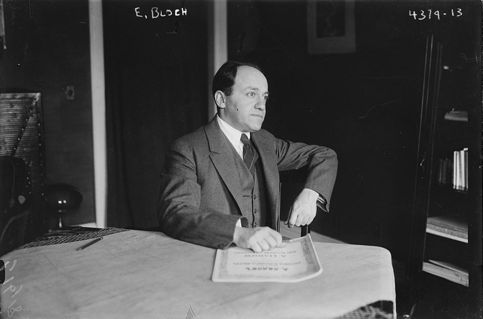 Ernest Bloch in 1917 at a table